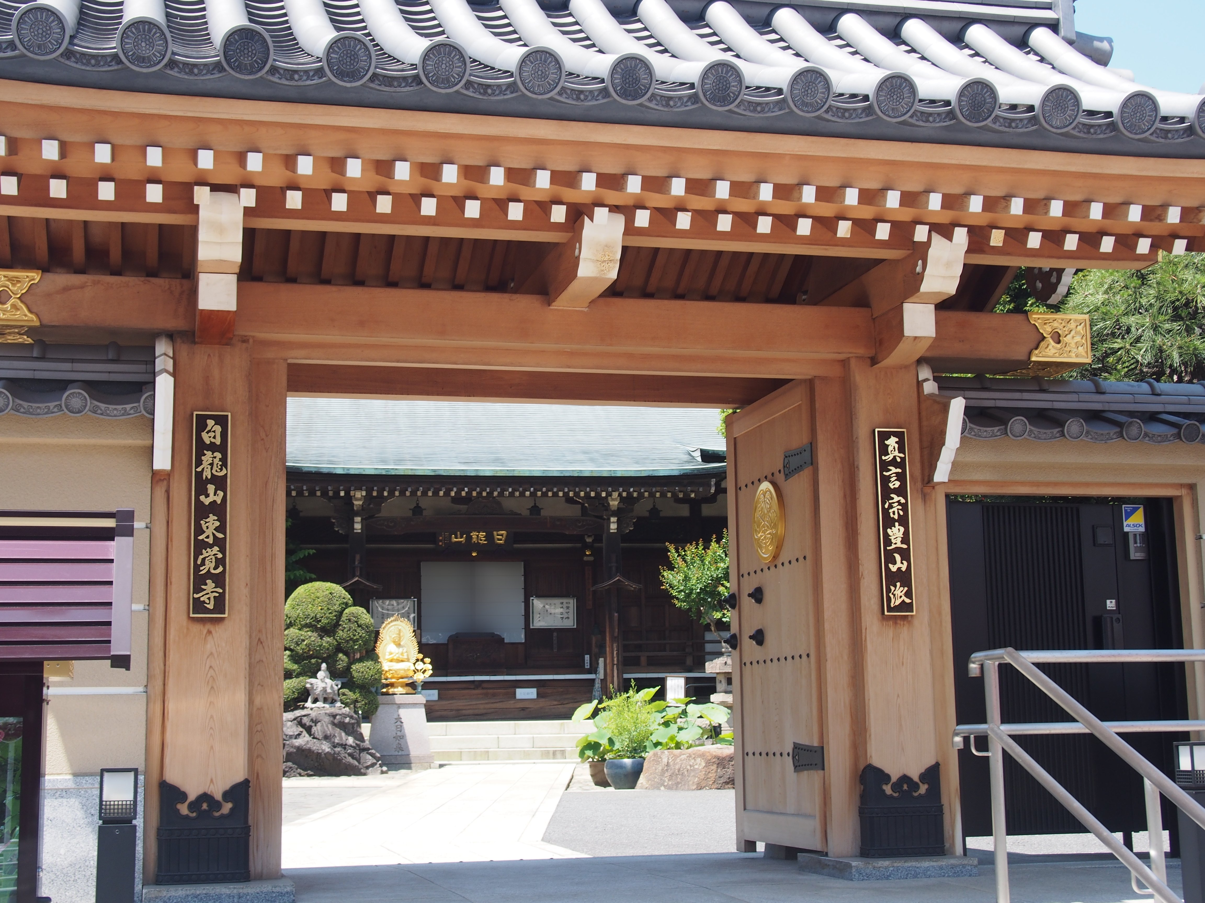 A photo of Tōgaku-ji temple, Tabata, Kita-ku, Tokyo, Japan.